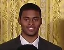 University of Louisville men's basketball player Chane Behanan visits the White House with his team in honor of Louisville's 2013 national championship.